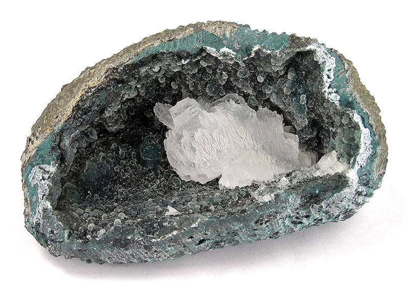 Epistilbite Locality: Jalgaon District, Maharashtra, India (Locality at ) Size: cabinet, 10.5 x 5.8 x 4.6 cm Epistilbite in vug This is another fine example of open space in a vug allowing the formation of crystallized minerals. In this case, the vug in basalt has allowed the lustrous, translucent, colorless, EPISTILBITE to form in parallel growth crystals. This is a super example of this rare species. The Epistilbite measures 5.0 cm across.